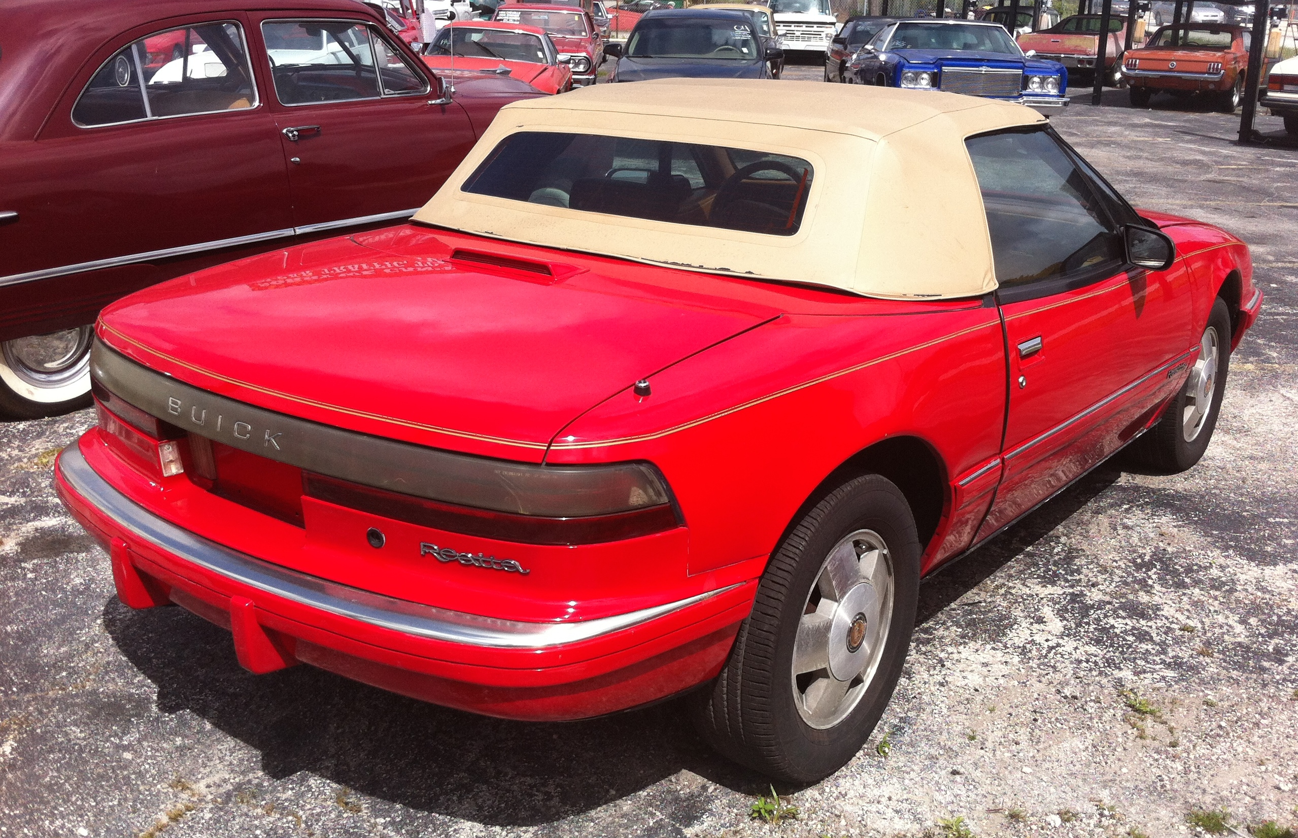 1990 Buick Reatta roadster finished in red with a tan convertible top.